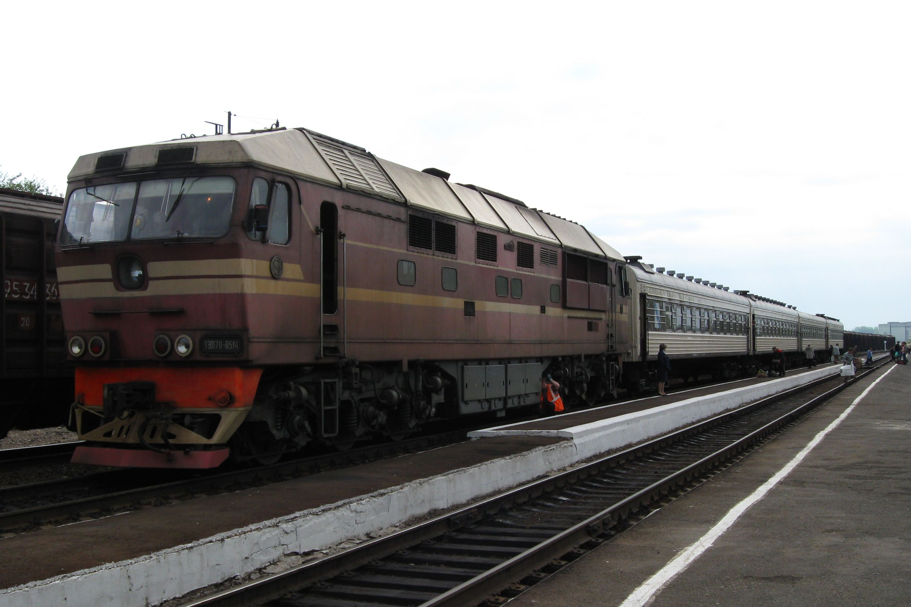 Express train "Voronezh — Kursk" arrival to Shchigry Train Station. Diesel locomotive: TEP70-0514